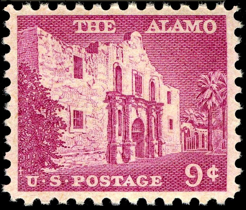 Image of US Postage stamp depicting the Alamo